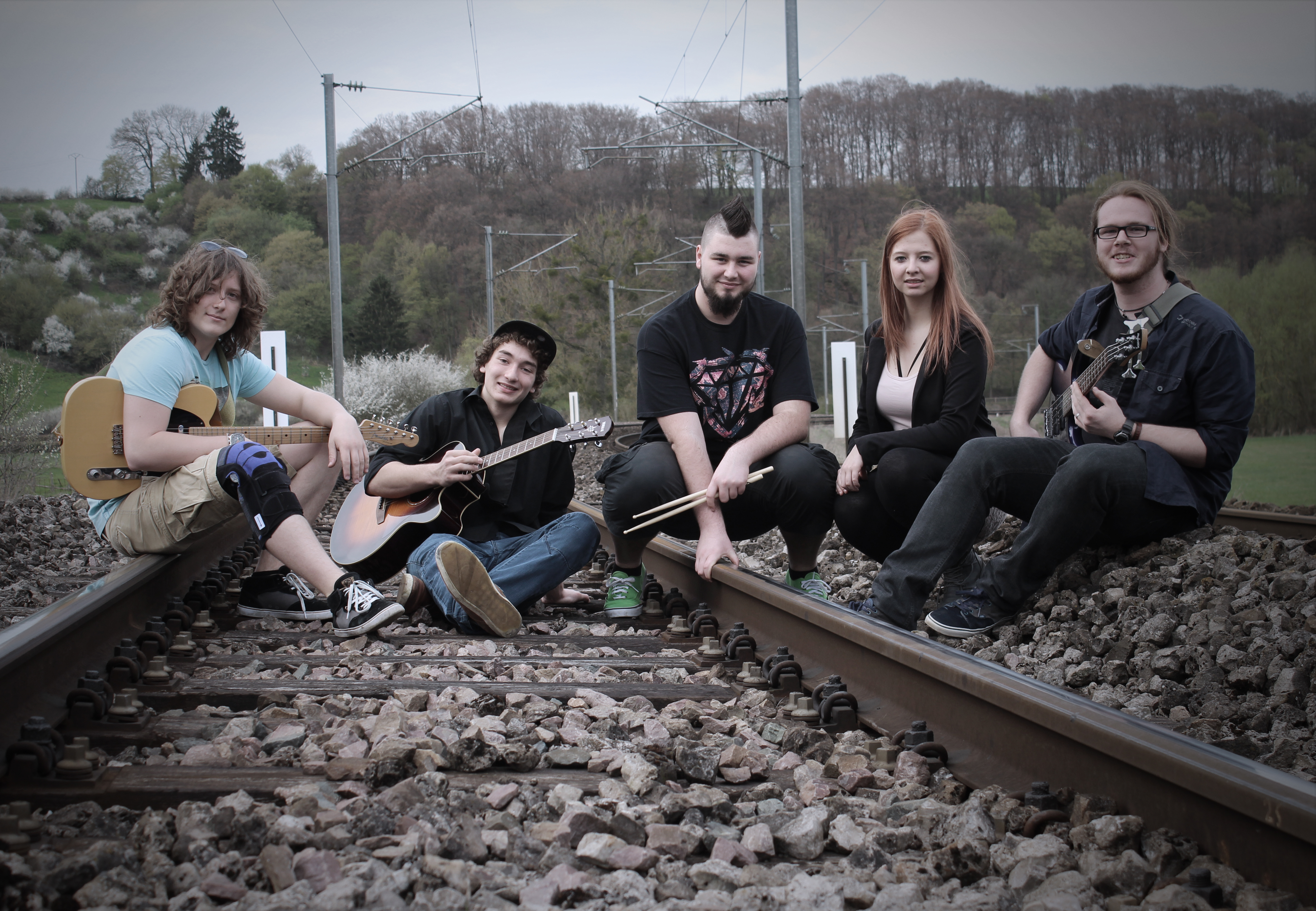 Photo of the luxembourgish band Roundabout.